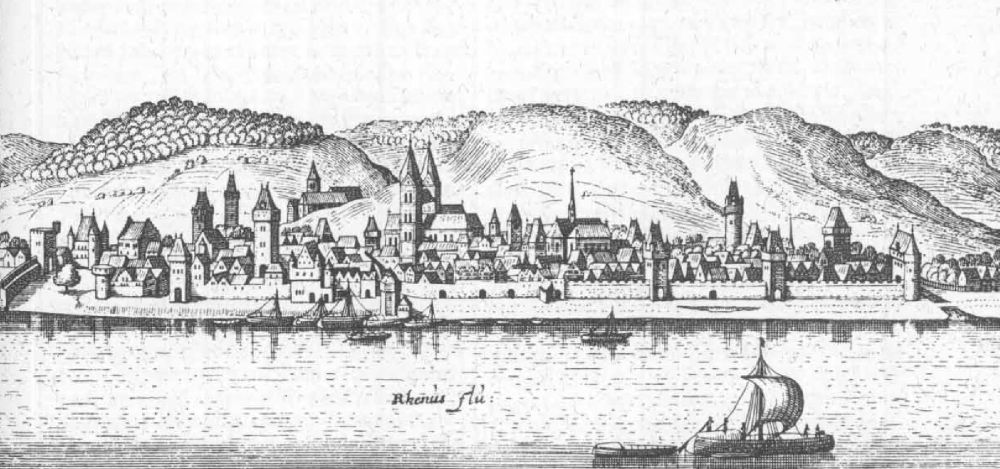 This is a scan of the historical document: Title: Boppard - Topographia Hassiae language: german